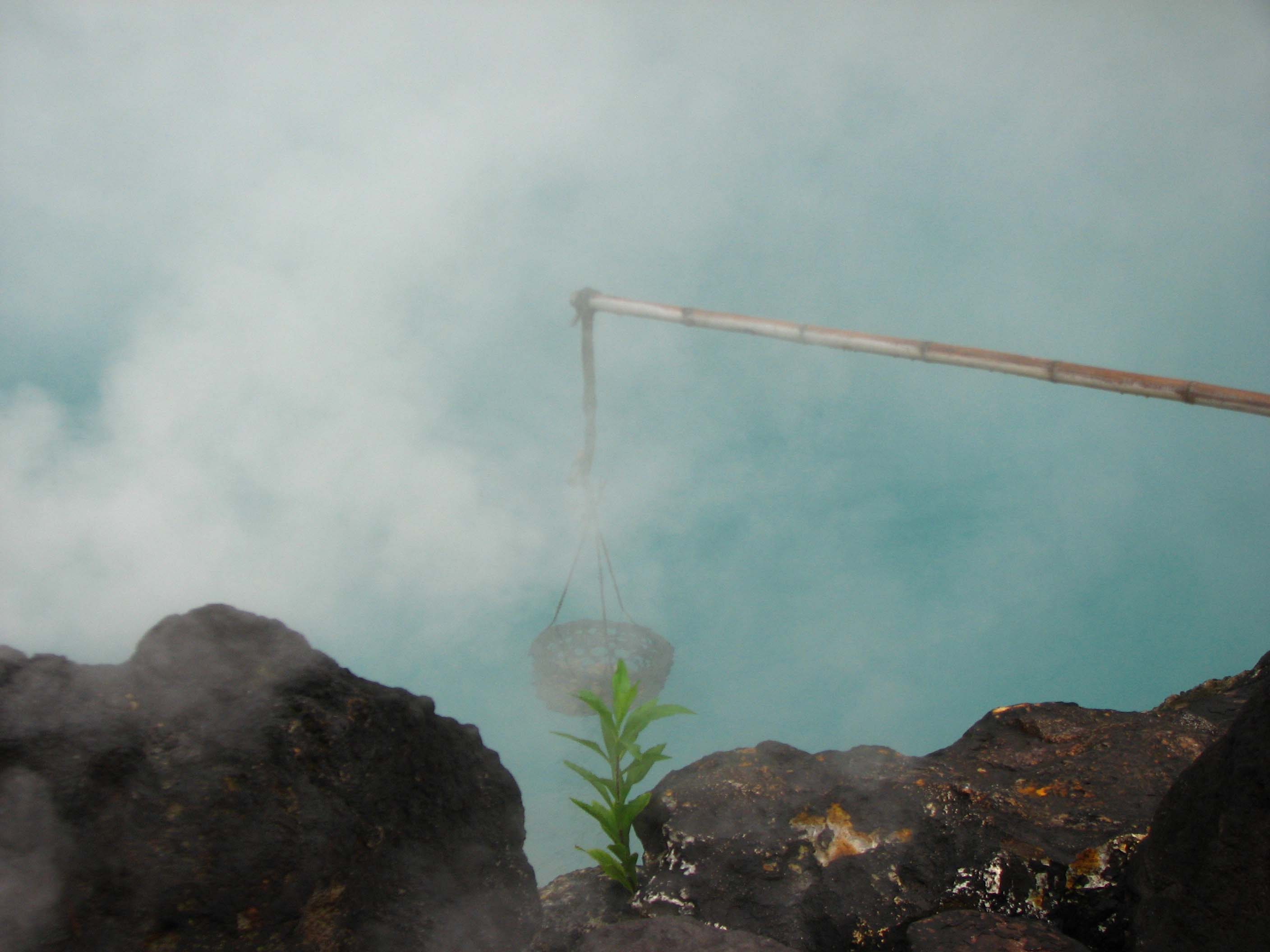 They cook eggs in the hot water of the onsen. They're slightly brown on the inside, and taste a little sulfuric....